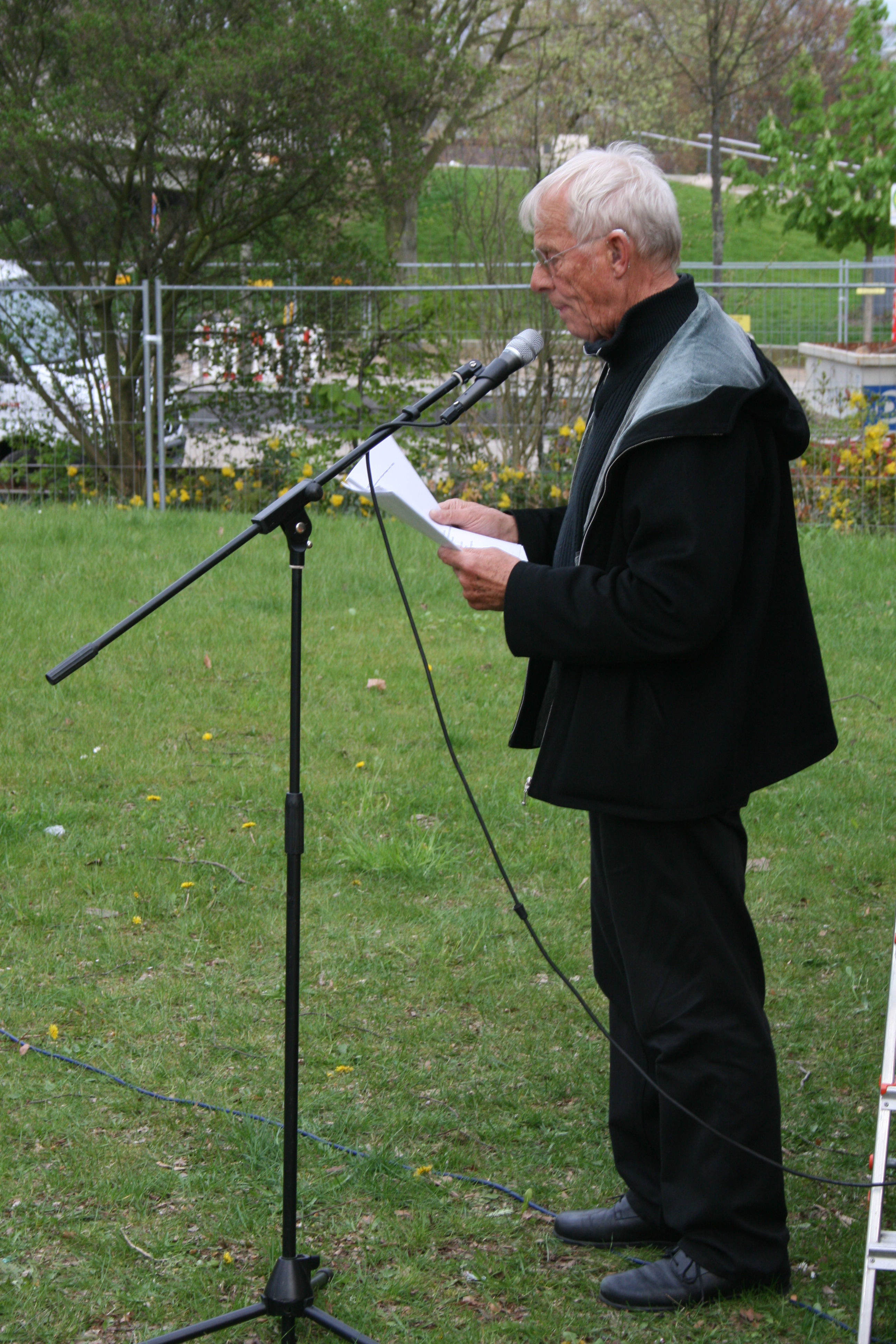 The German actor Rolf Becker